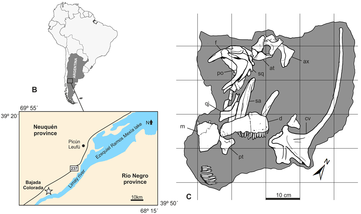 (B) A map of the surrounding area of the Ezequiel Ramos Mexía lake (Neuquén Province, Argentina) showing the type locality of Bajadasaurus (Bajada Colorada) indicated by a white star. (C) A quarry map showing the association and location of the remains in the field. at, atlas; ax, axis; cv, cervical vertebra; d, dentary; f, frontal; m, maxilla; po, postorbital; pt, pterygoid; qj, quadratojugal.